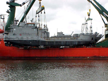 en: MV Strong Virginian lifting a boat. IMO Number: 8300200 MMSI Number: 367753000 Callsign: KSPH Length: 156 m Beam: 32 m